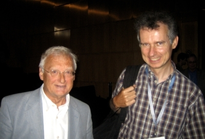 Mathematicians Hans Föllmer (left) and Jean-François Le Gall (right) at the ICM 2006 in Madrid.